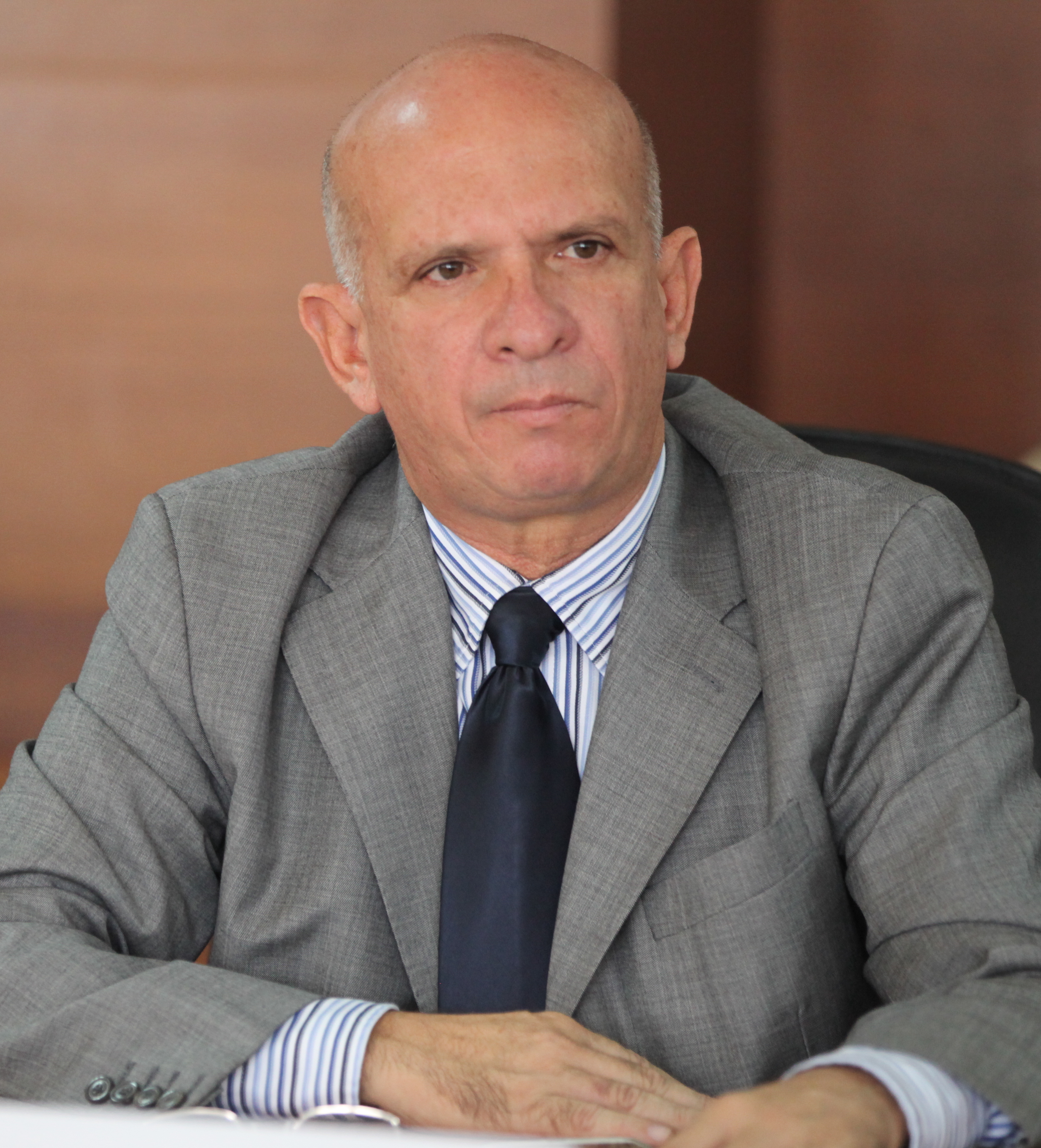 Mayor General Hugo Carvajal Barrios